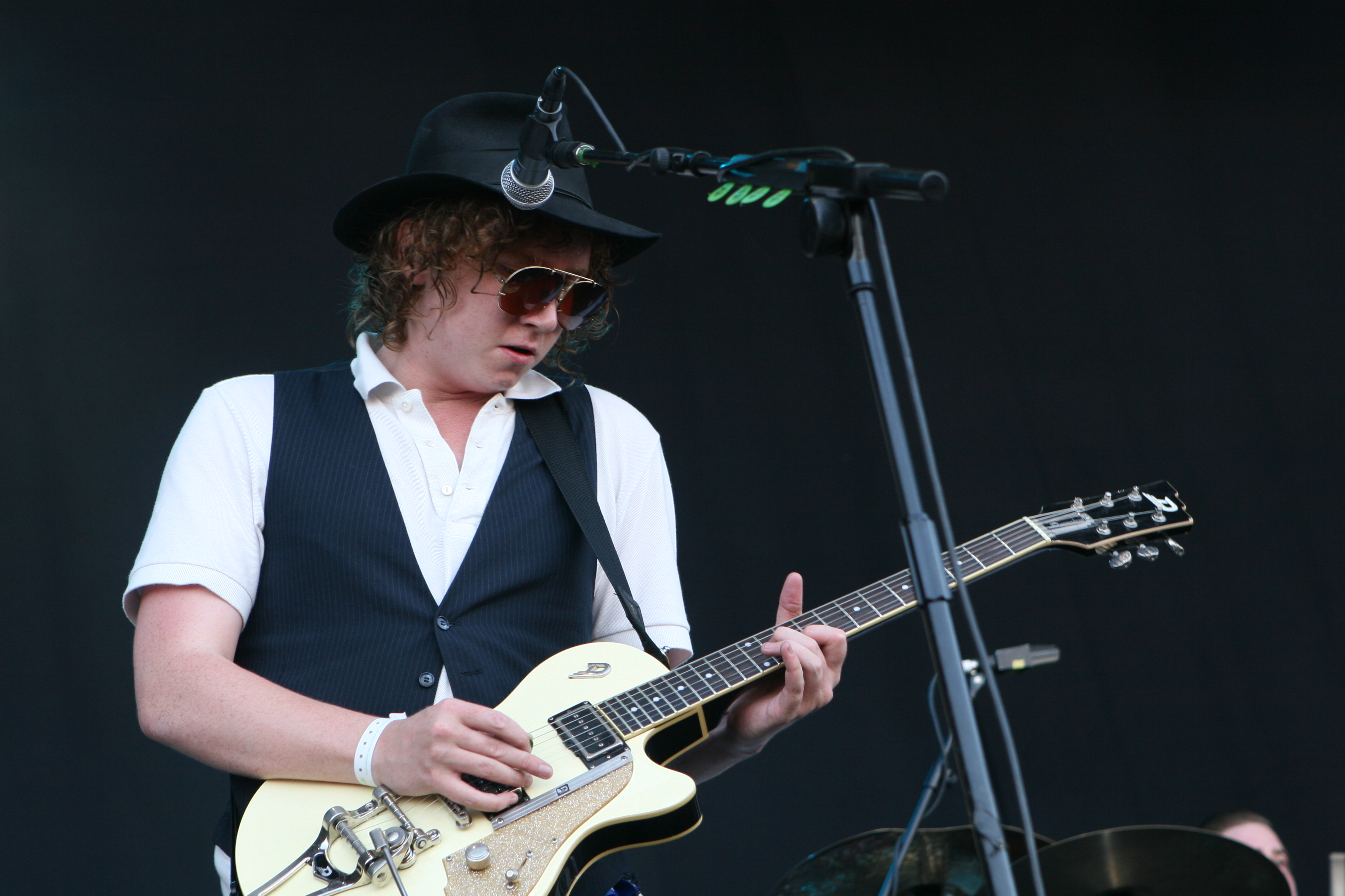 The Kooks en el Summercase 2008 de Barcelona